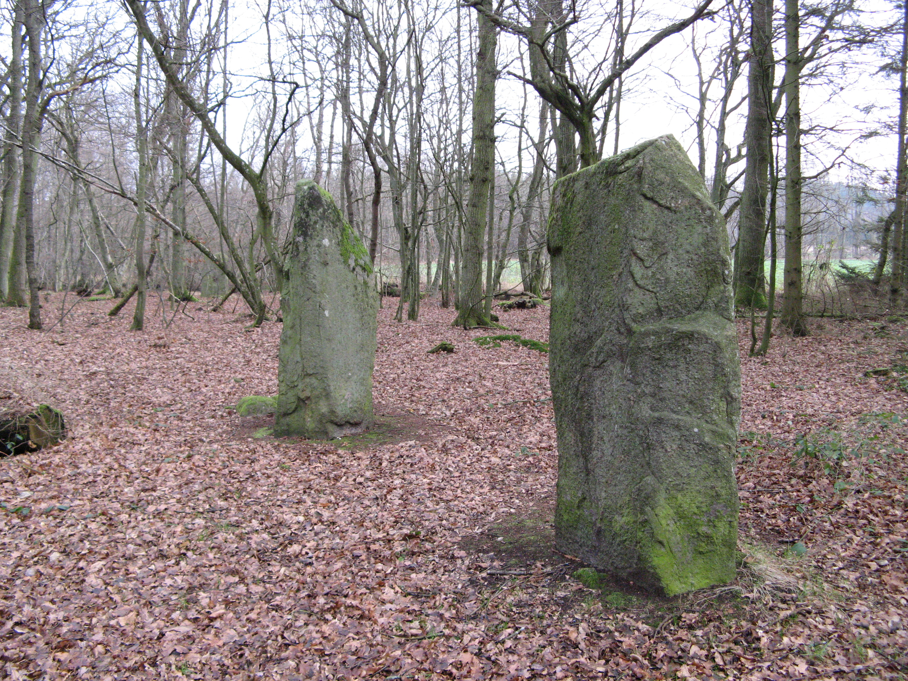 Gryet Bauta Stones, Bornholm